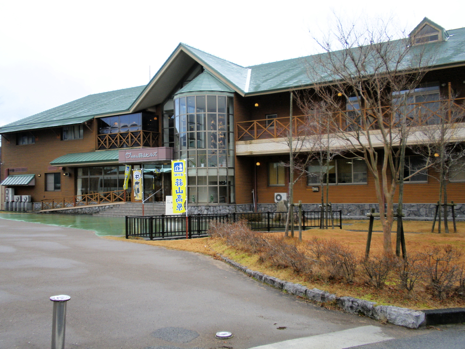 Hotel Hiruzen Hills in the Roadside Station Hiruzen Kogen, Maniwa, Okayama.